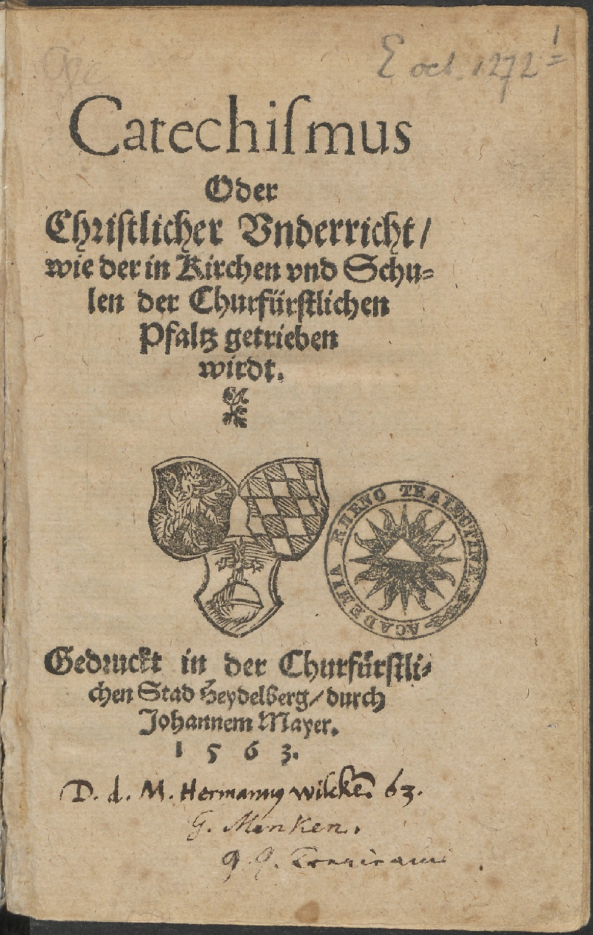 Heidelberger Katechismus 1563